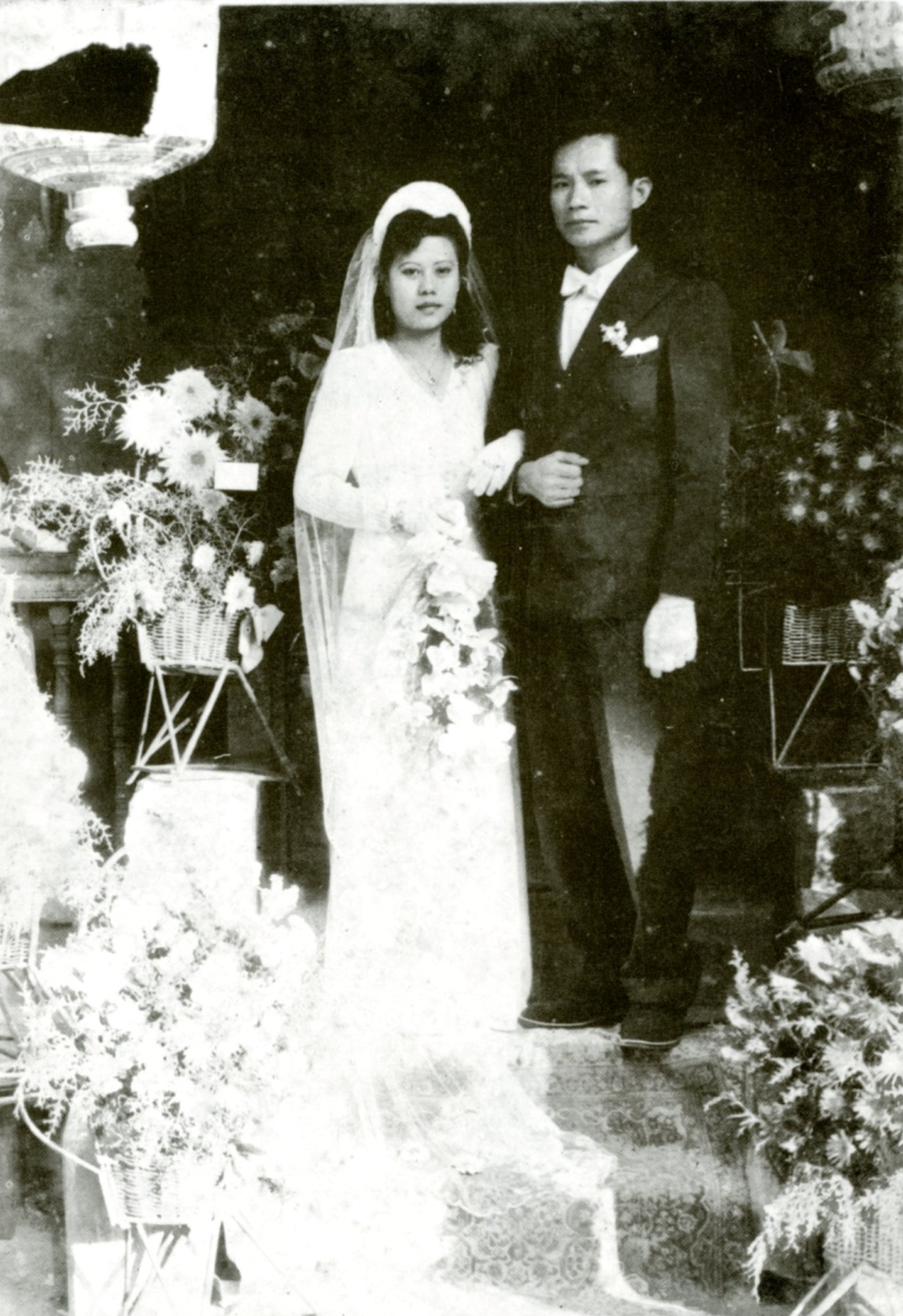 Chen Chih-hsiung and Tan Ien-Niu